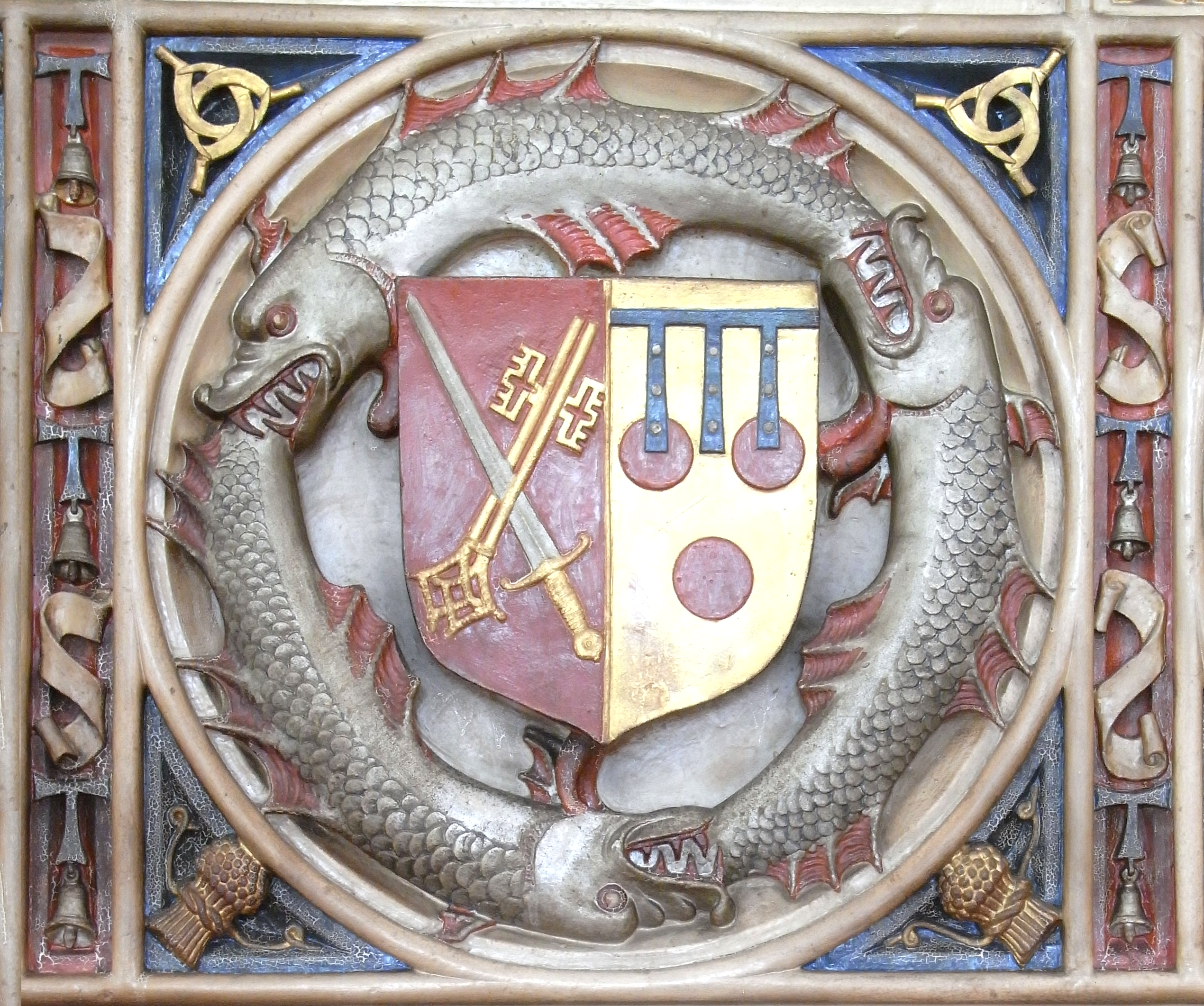 Arms of Bishop Peter Courtenay (d.1492), Bishop of Exeter and Bishop of Winchester, showing arms of See of Winchester impaling arms of Courtenay, the shield surrounded by three dolphins embowed, the heraldic device of the Courtenay family. In the top spandrels are shown three intertwined sickles, heraldic badge of the Hungerford family; in the lower spandrels are shown a garb of wheat, heraldic badge of the Peverell family. In the margins on either side are shown letters "tau" with a bell appended, symbols of St Anthony to whom the bishop had a special devotion.(A Delineation of the Courtenay Mantelpiece in the Episcopal Palace at Exeter by Roscoe Gibbs with a Biographical Notice of The Right Reverend Peter Courtenay, DD,... To which is added A Description of the Courtenay Mantelpiece compiled by Maria Halliday, privately published at the Office of the Torquay Directory, 1884). Detail from Bishop Courtenay's Mantelpiece, Bishop's Palace, Exeter.